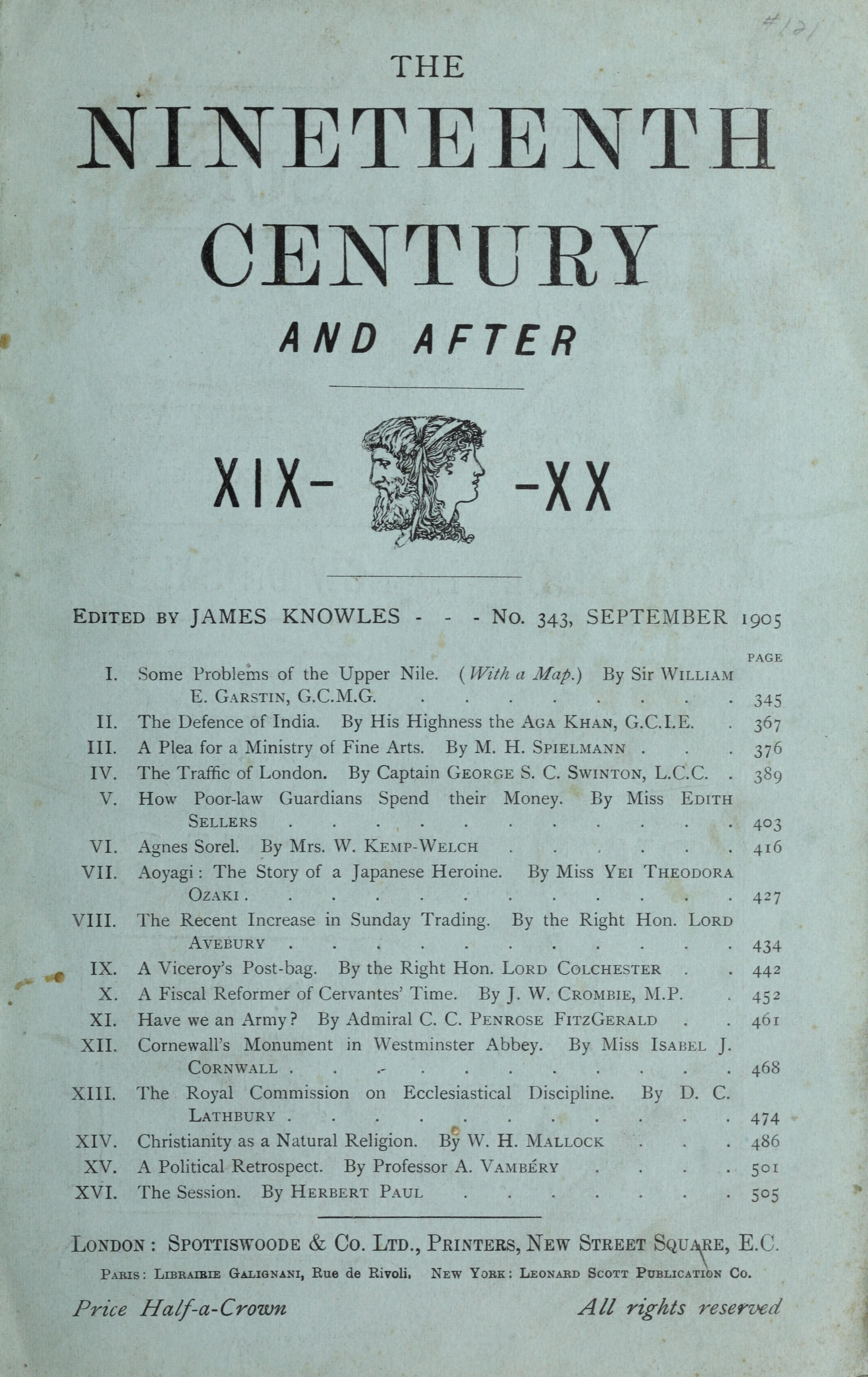 Front Cover of British literary magazine, The Nineteenth Century and After"", September 1905. Edited by James Knowles, the magazine was previously called The Nineteenth Century, but copyright restrictions prevented it from adopting the name The Twentieth Century until 1951. The magazine featured the Janus-like image of an old man and a young woman. The man looks back to the nineteenth century, while the woman looks forward to the twentieth.